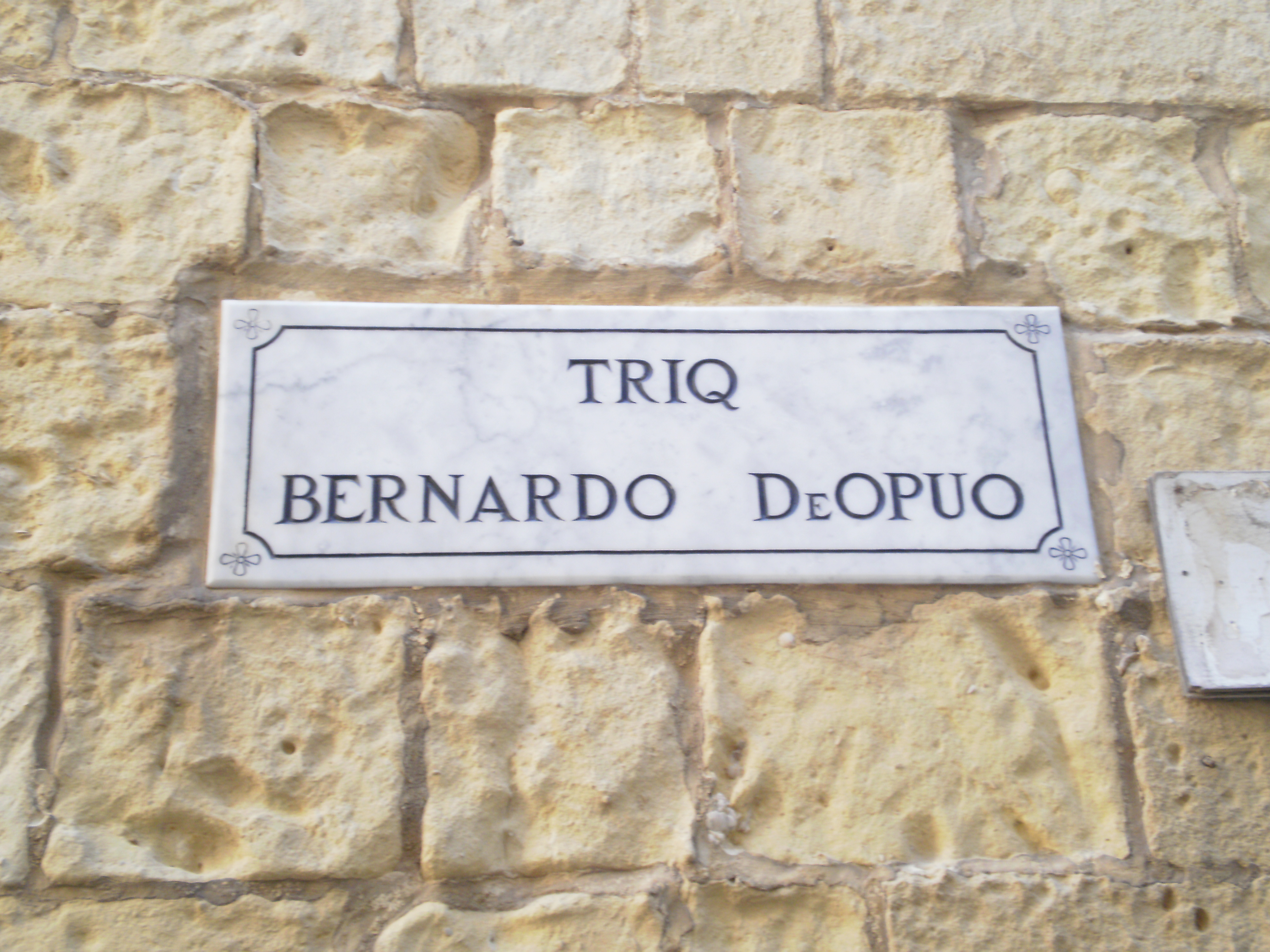 The street sign of "Bernardo DeOpuo Street" in the Citadella, Victoria, Gozo Malti: "Triq Bernardo DeOpuo" fiċ-Ċittadella, ir-Rabat, Għawdex.